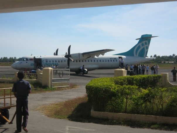 Air Bagan ATR72 at Sittwe Air Port, December 2006 Summary Air Bagan ATR72 at Sittwe Air Port, December 2006